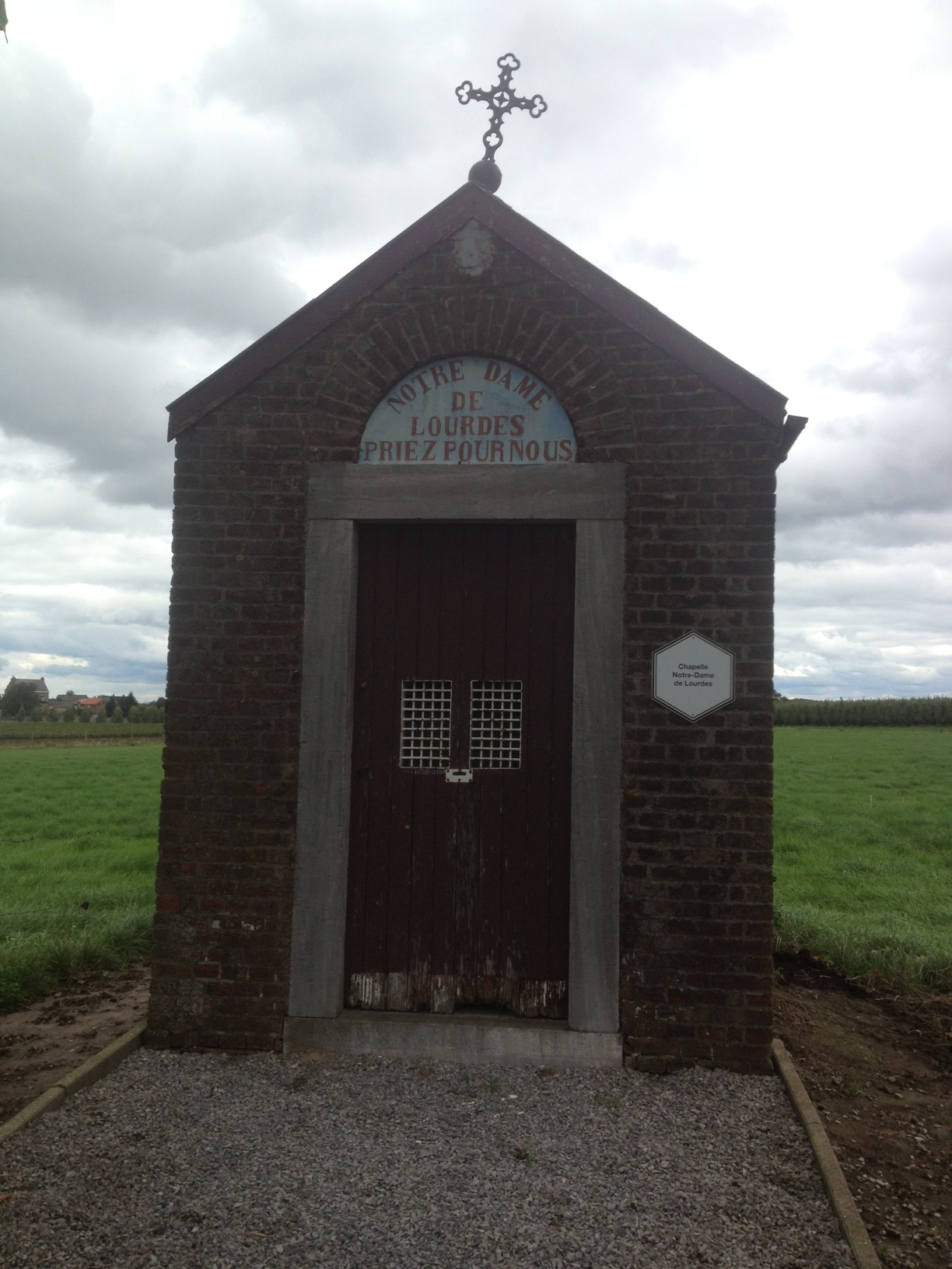 Chapelle Notre-dame de Lourdes Borlez